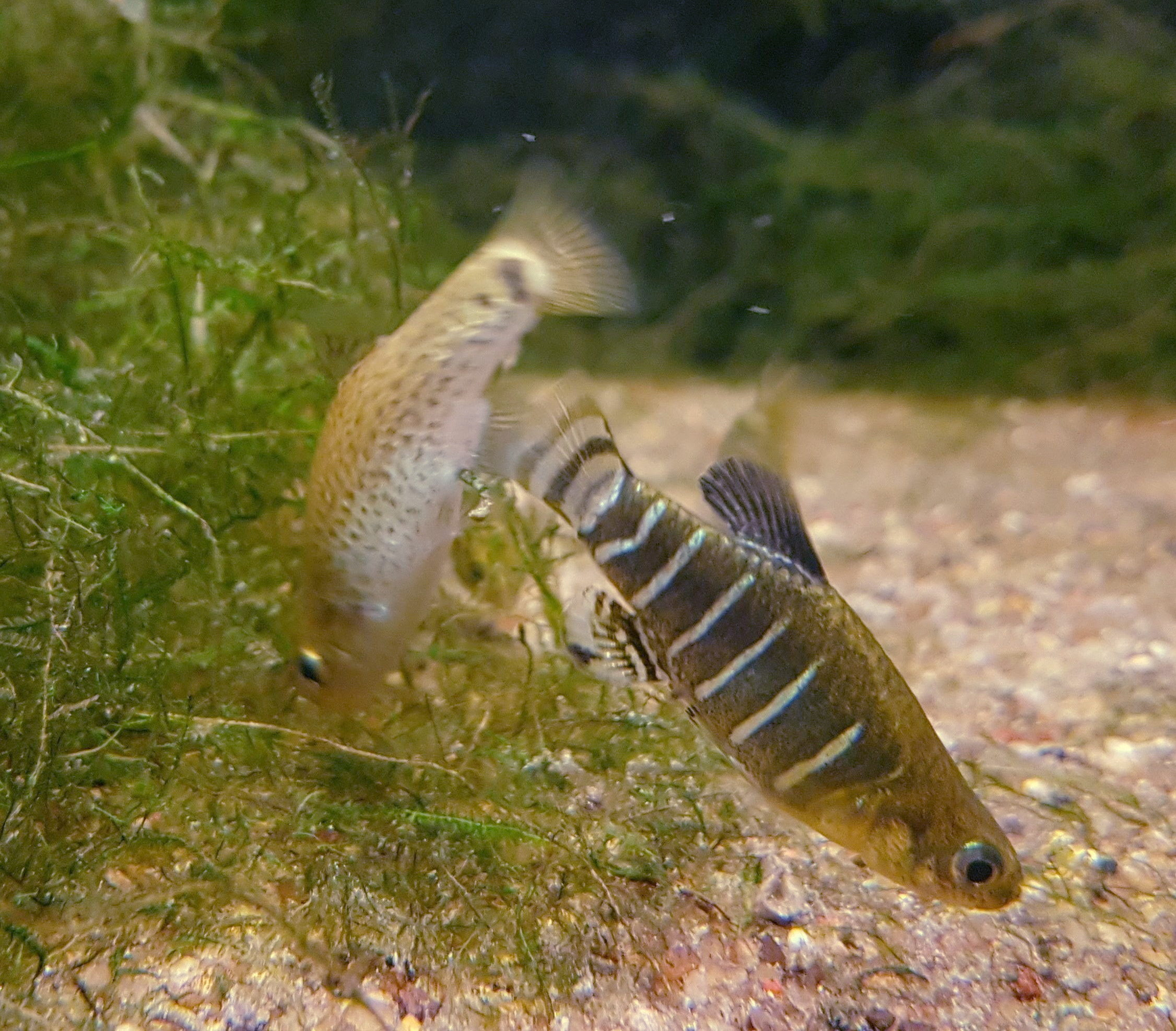 Kızılırmak toothcarp at Berlin Aquarium, showing sexual dimorphism (male right, female left)